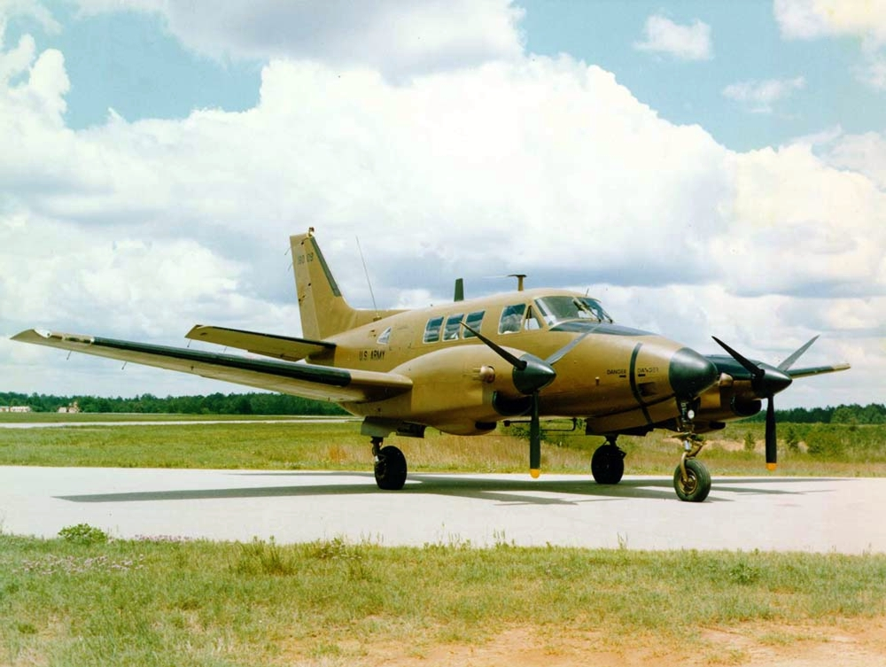 A U.S. Army Beechcraft U-21A Ute (s/n 66-18019). The U-21 was the military version of the Beechcraft King Air.